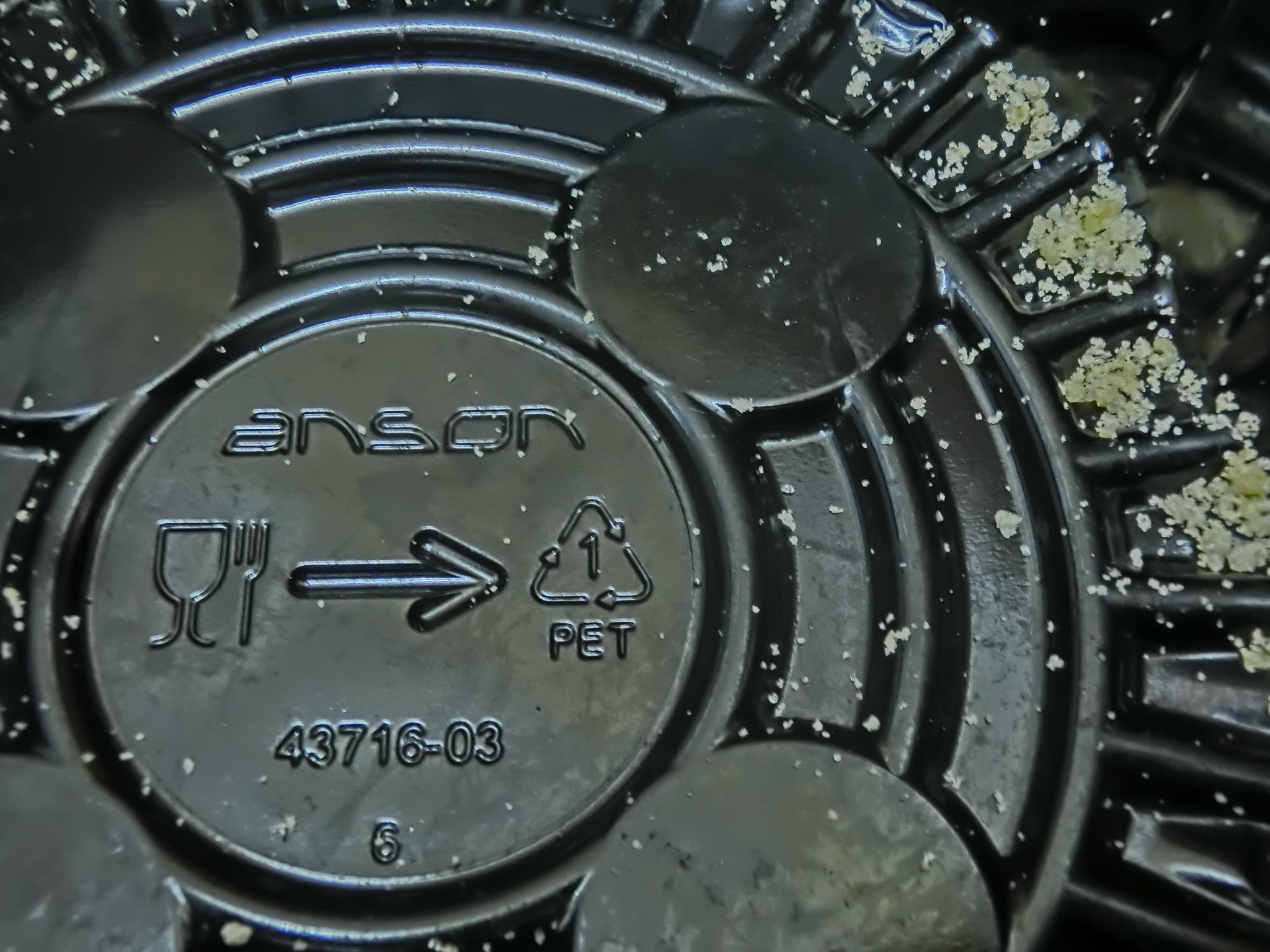 Plastic food container in a Hong Kong market.